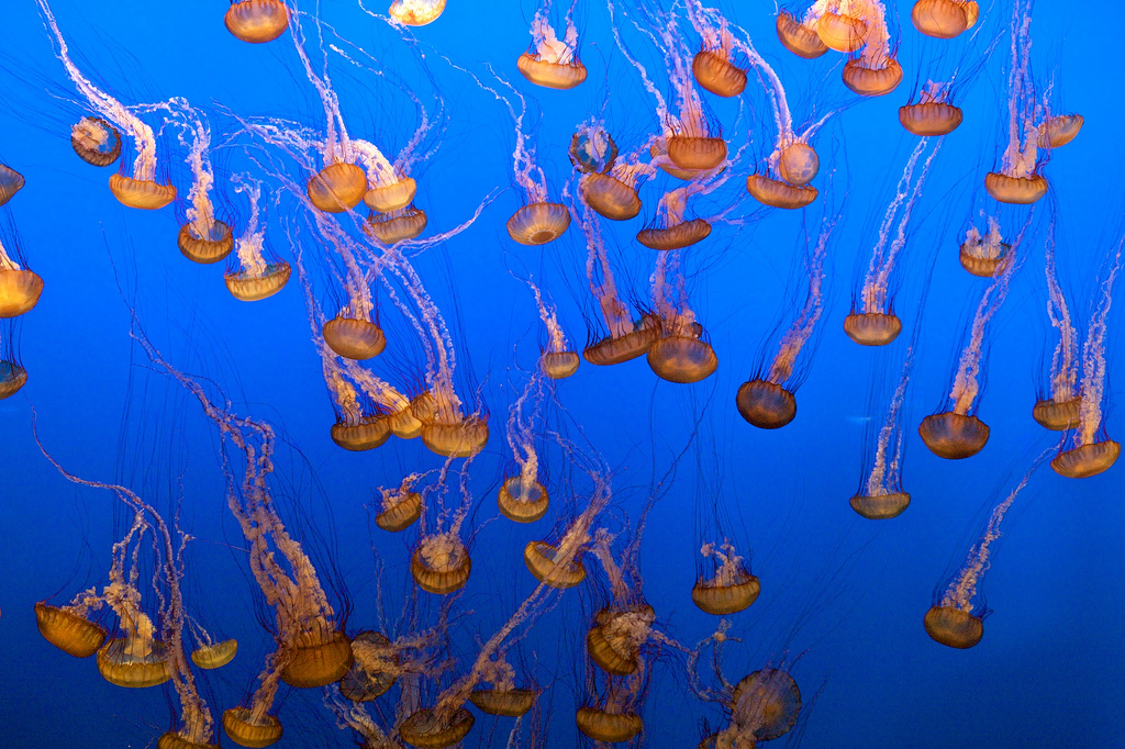 Sea Nettle Jellyfish at Monterey Bay Aquarium Exhibit